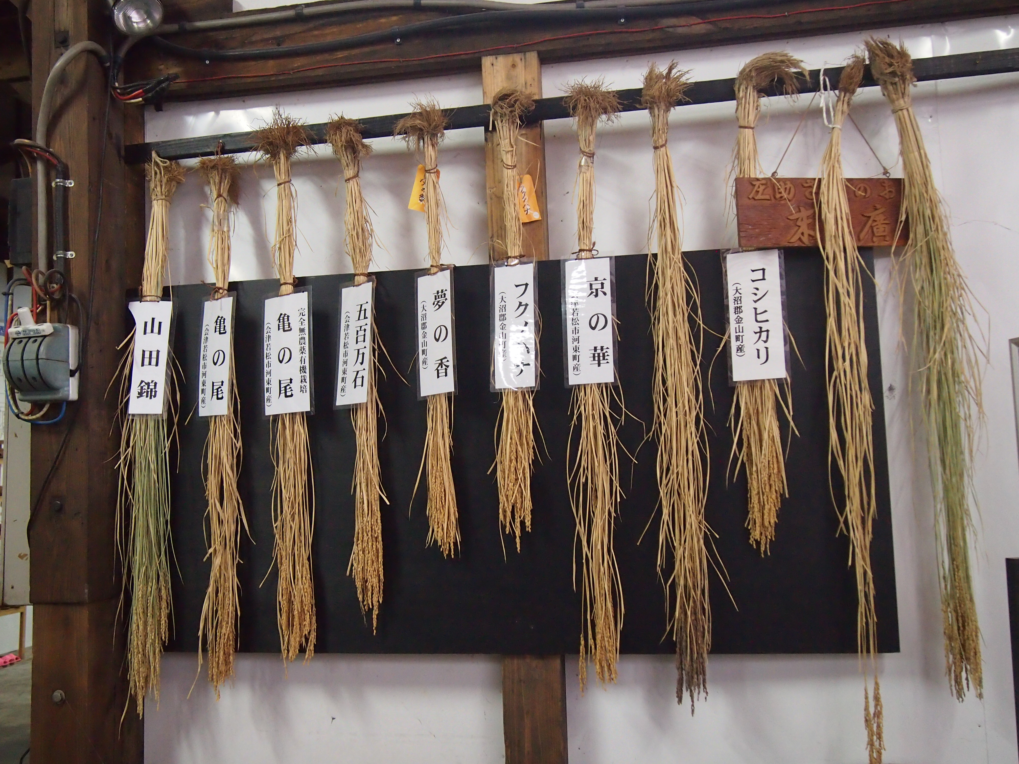 Rice for sake displayed at a brewery